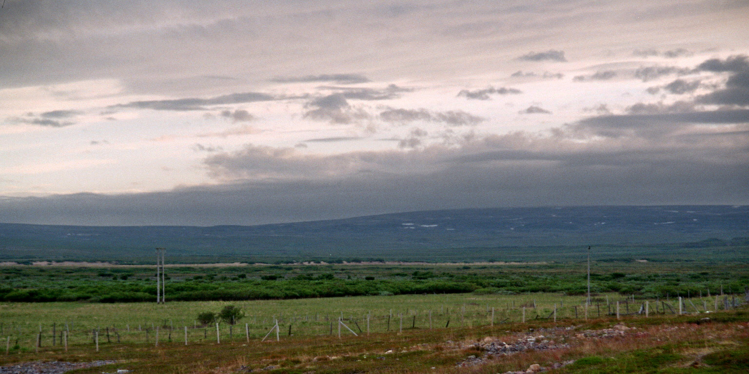 Seen from highway E75 on Varangerhalvøya on the northern shore of the Varangerfjord between Vardø and Vadsø in Finnmark in northern Norway. Near Vardø